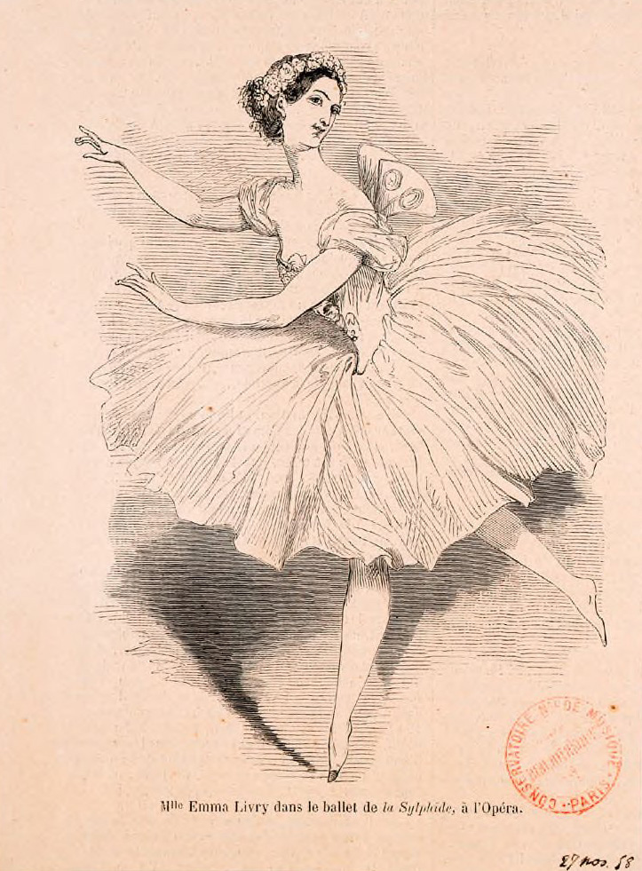 Portrait of Emma Livry in "La sylphide"